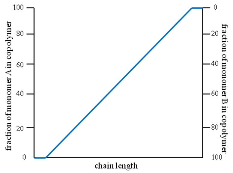 Graphical depiction of the composition of a gradient copolymer.